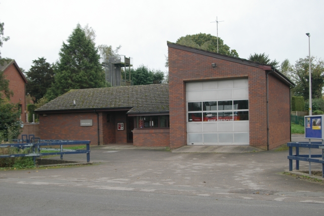 Albrighton fire station Albrighton fire station, Clock Mills, Newport Road, Albrighton, Shropshire.